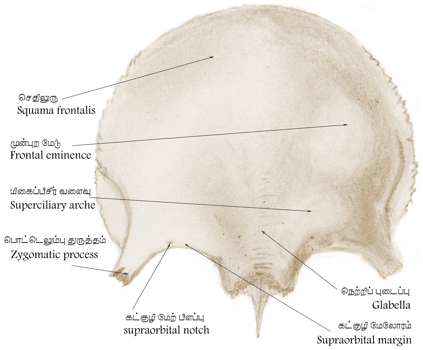 Frontal bone; outer surface